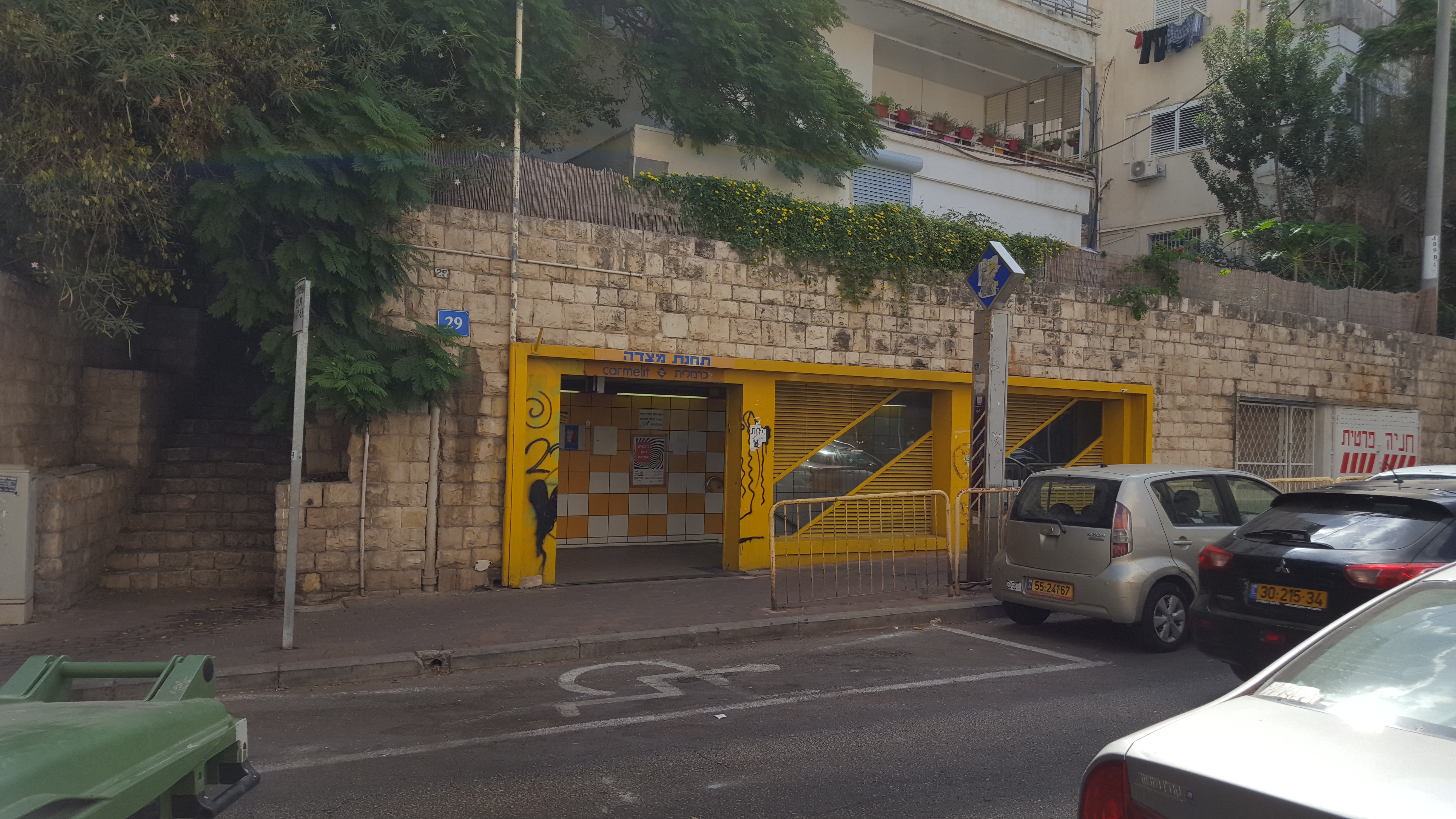 Carmelit funicular in Haifa